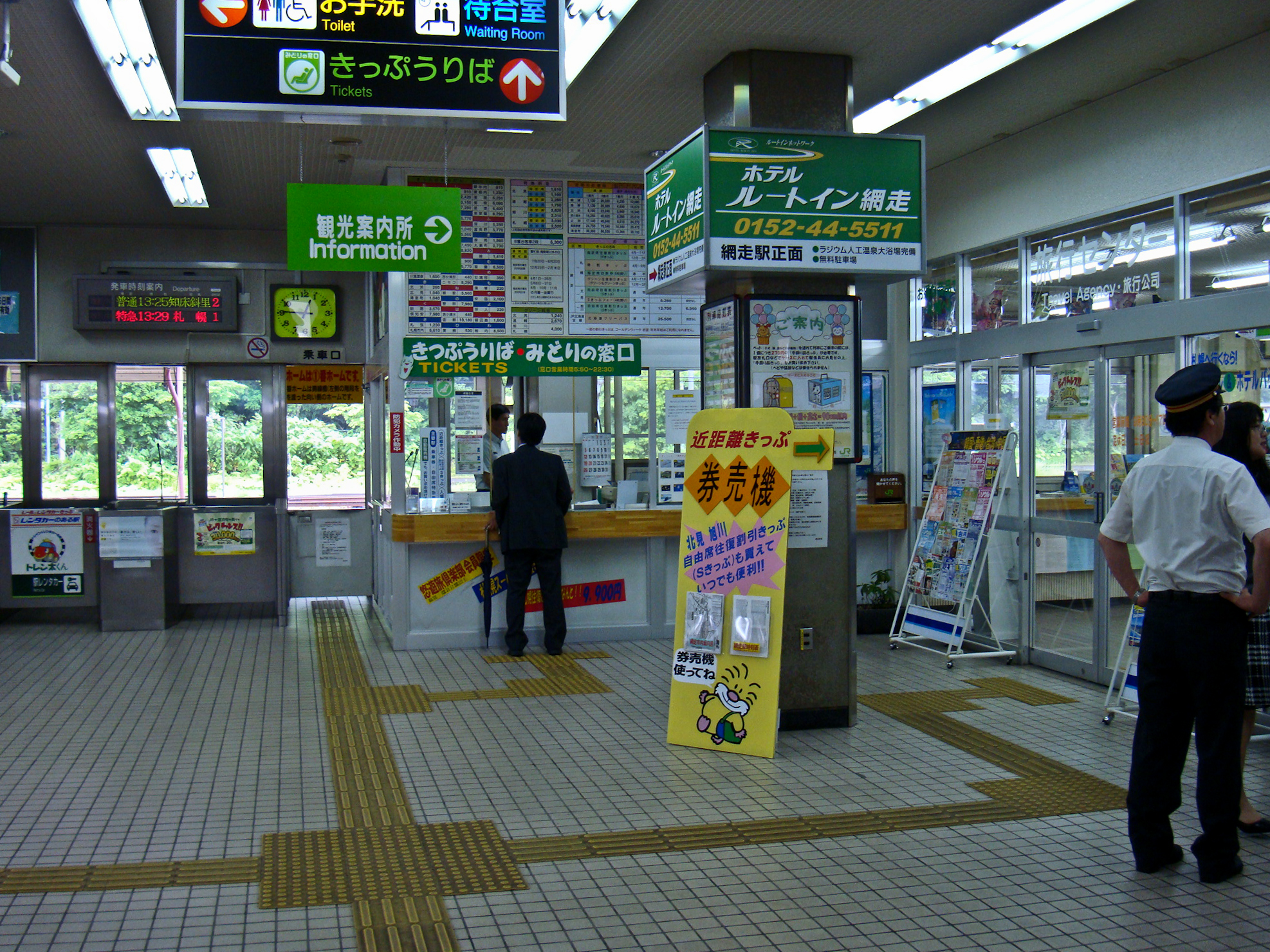 Abashiri Station